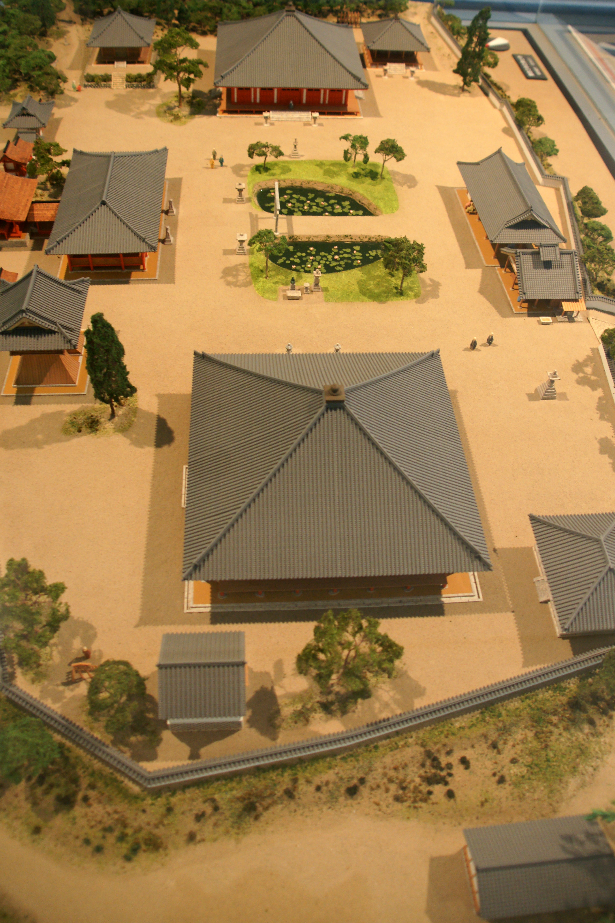 City Museum Ono (Kokokan) in Ono, Hyogo prefecture, Japan.